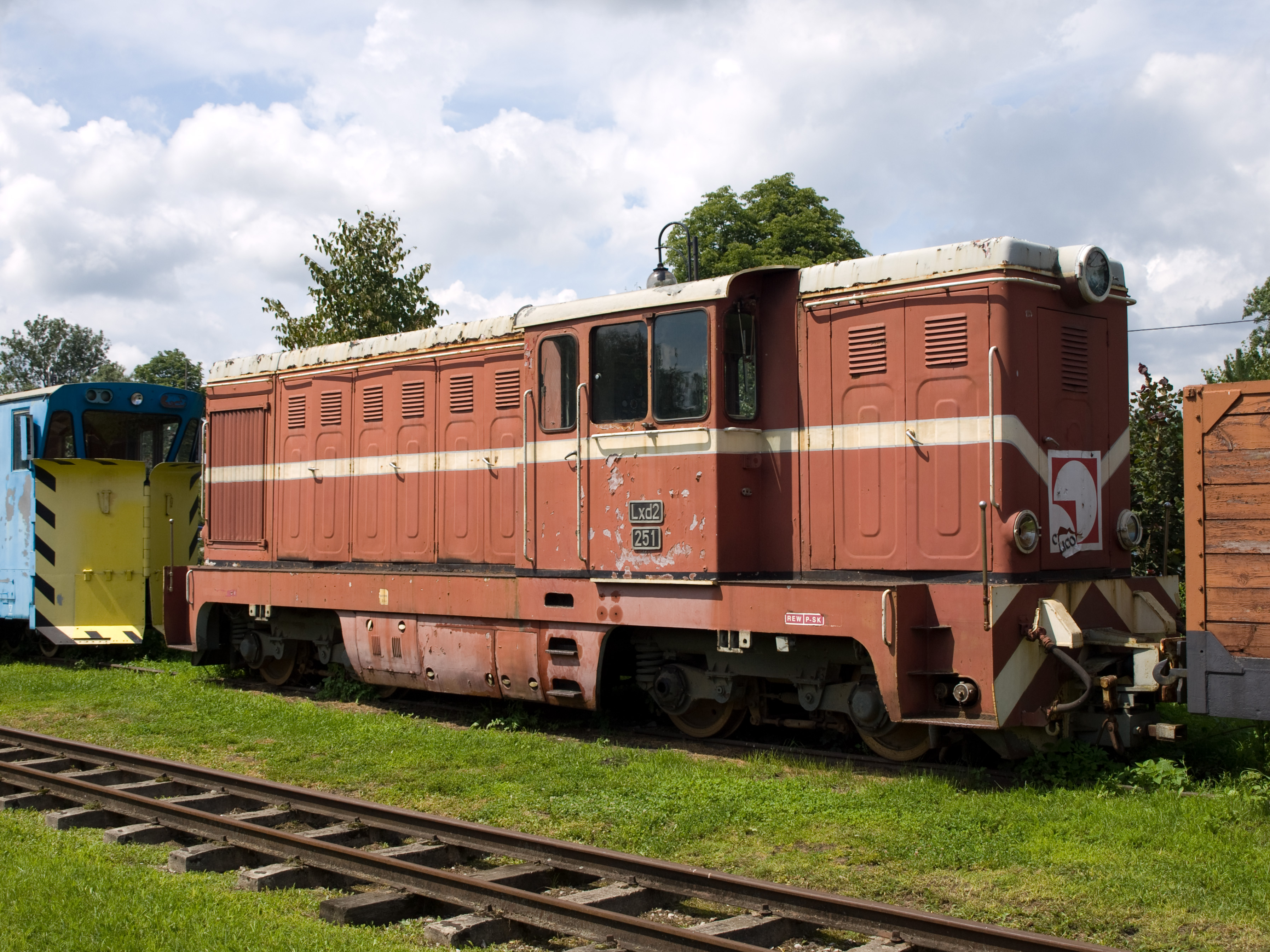 PKP class Lxd2, Bachórz, Subcarpathian Voivodeship